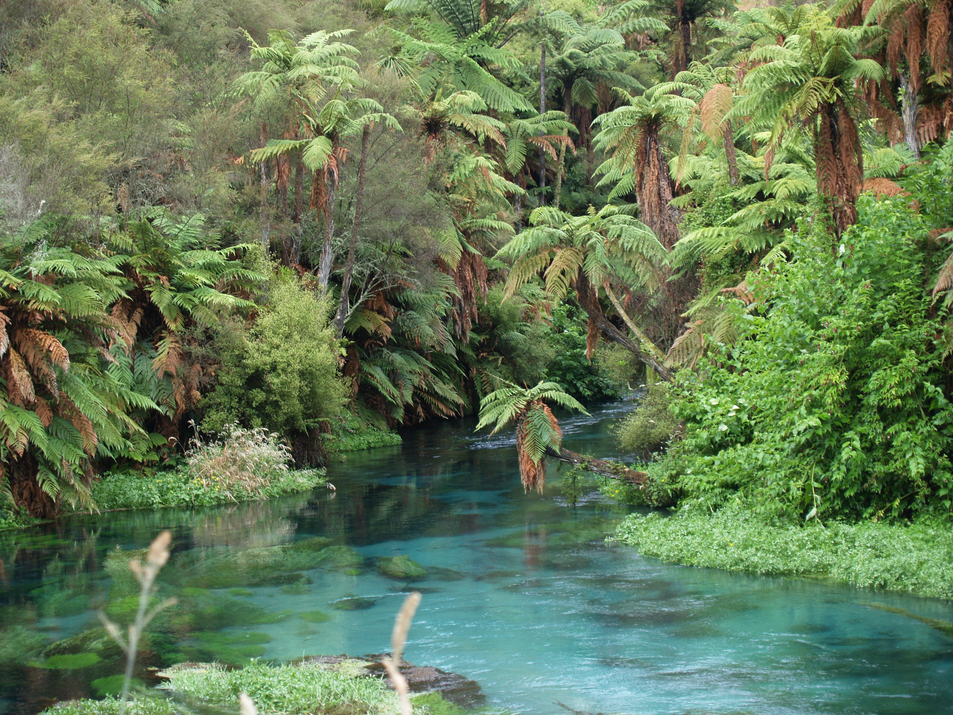 Te Waihou Walkway, New Zealand